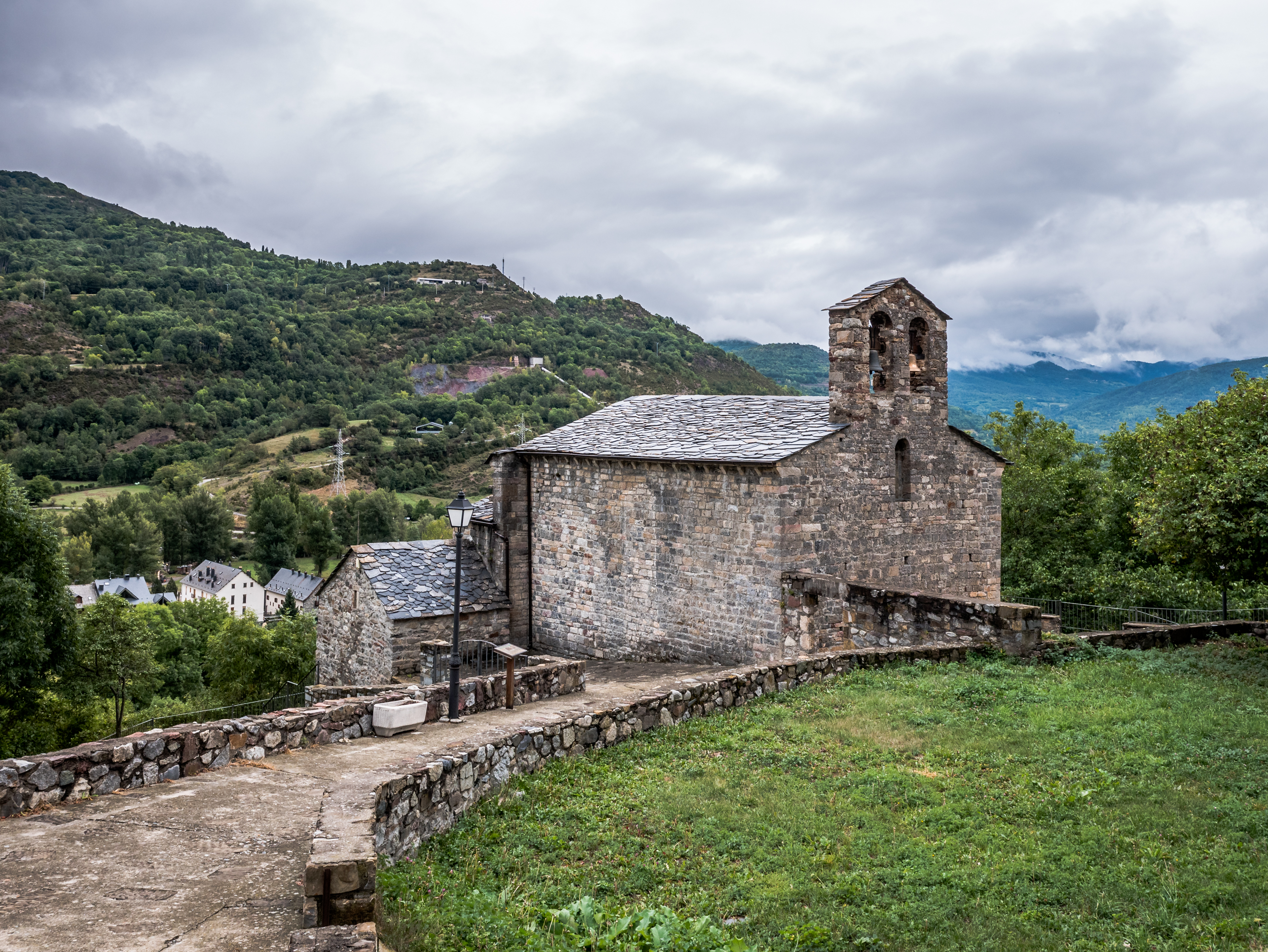 Church of St. Peter in Villanova. Huesca, Aragon, Spain